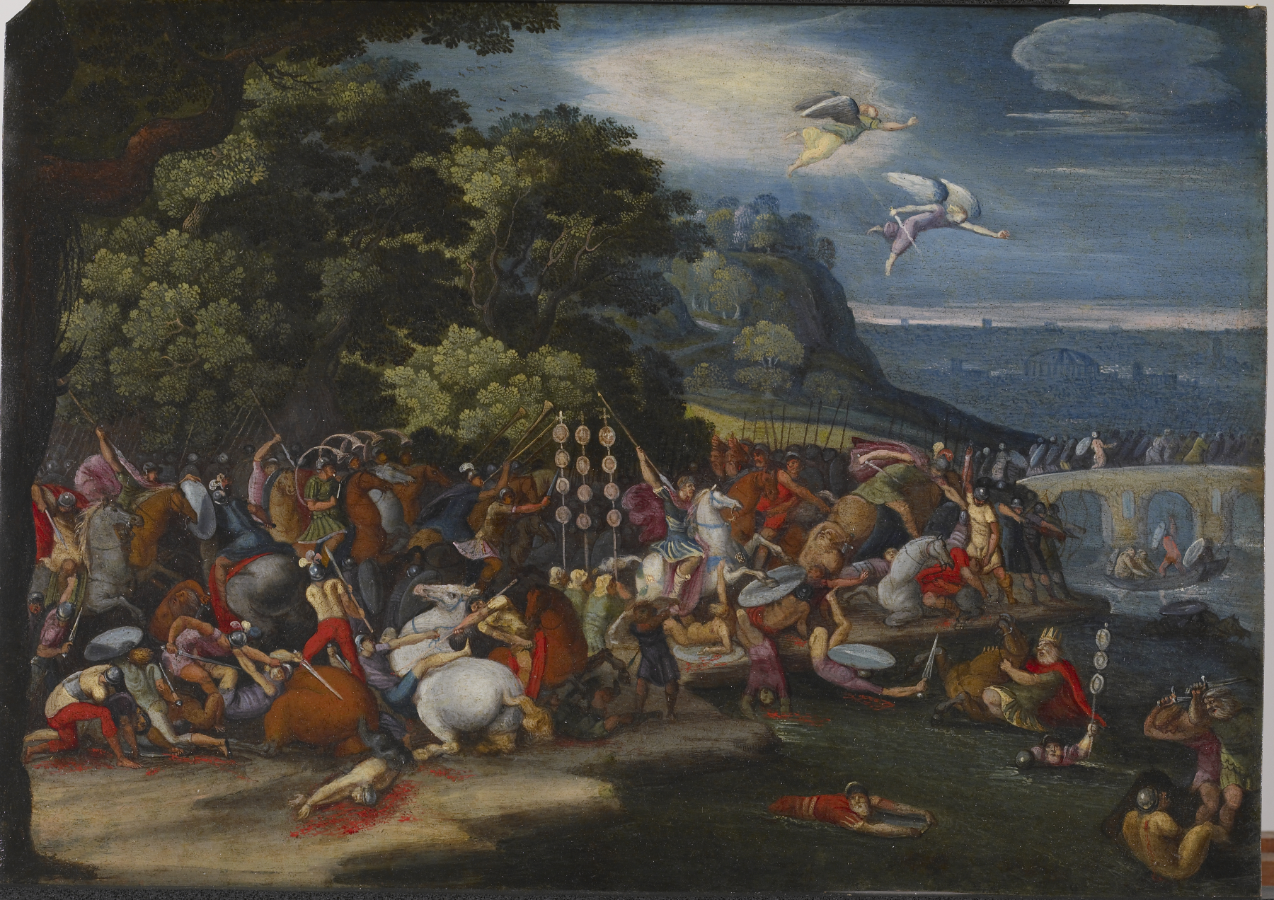 Constantine the Great (ca. AD 275-337) converted to Christianity before he defeated his rivals for control of Rome in a crucial battle at the Milvian Bridge over the Tiber River in 312. The belief that the victory was due to heavenly intervention is indicated by the angels. Once emperor, Constantine established Christianity as the official religion of the Roman Empire. The composition was taken from a famous 16th-century fresco by Giulio Romano in the Vatican that was well known through engravings.